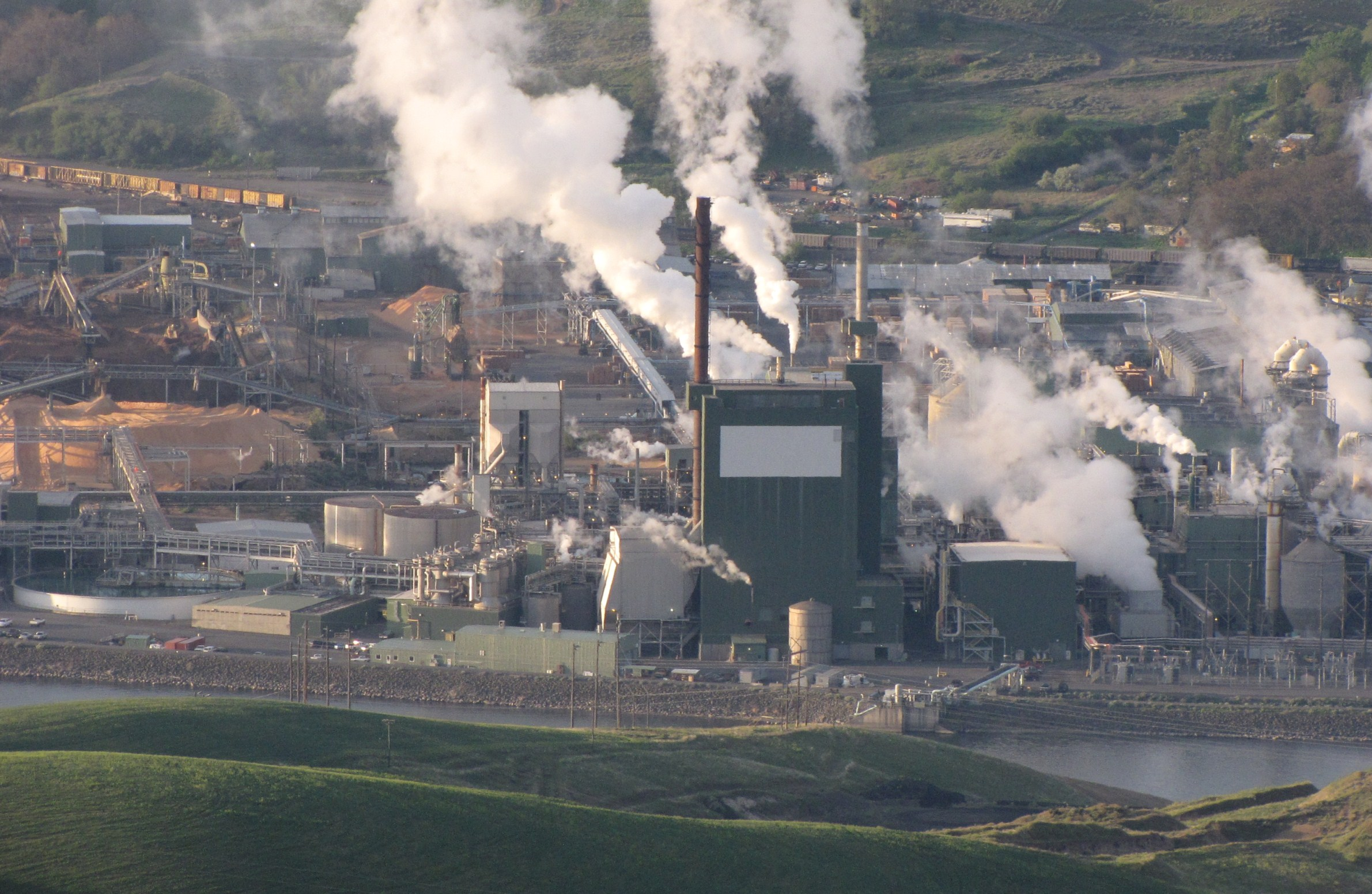 wood pulp mill detail, Lewiston, Idaho / 2010